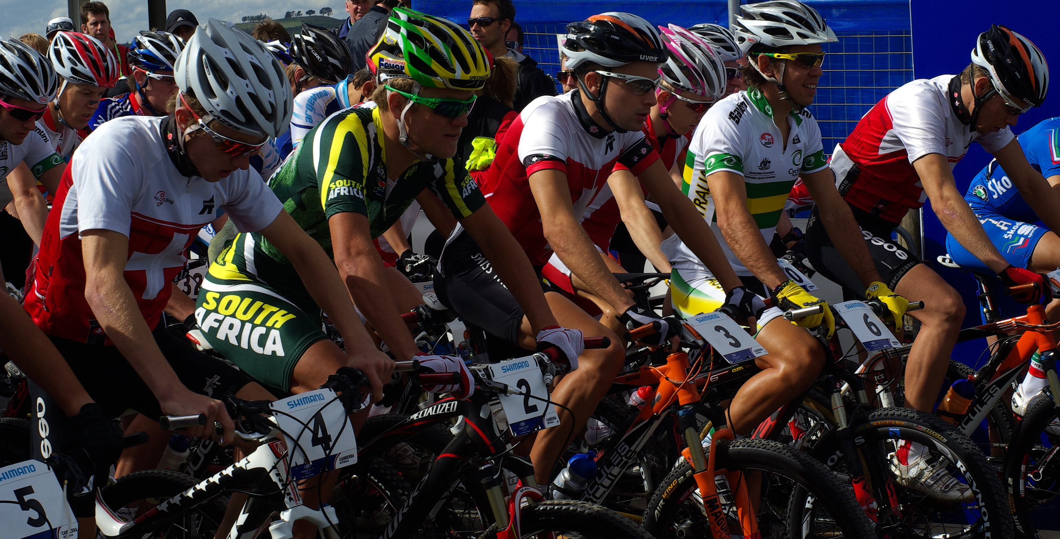 Cross-country mountain biking: Competitors in the under 23 men's division at the 2009 UCI Mountain Bike and Trials World Championships held at Mount Stromlo, near Canberra, Australia. The starting line. From left to right on the front row, Mathias Flückiger (SUI), Burry Stander (RSA), Fabian Giger (SUI), Lachlan Norris (AUS), Thomas Litscher (SUI)